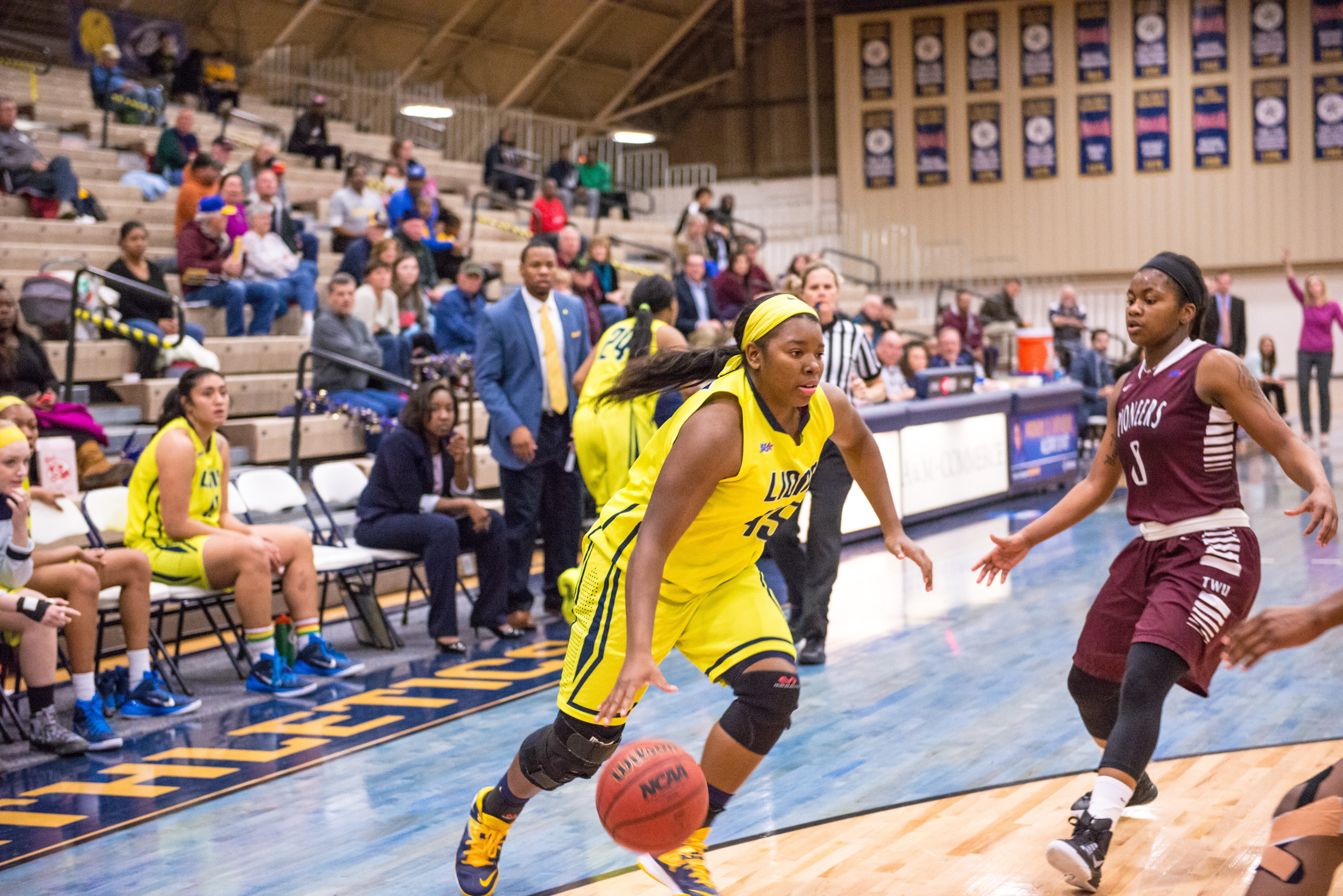 Athletics-WBSK vs TWU-8757.jpg 2014–15 Texas A&M–Commerce Lions women's basketball team